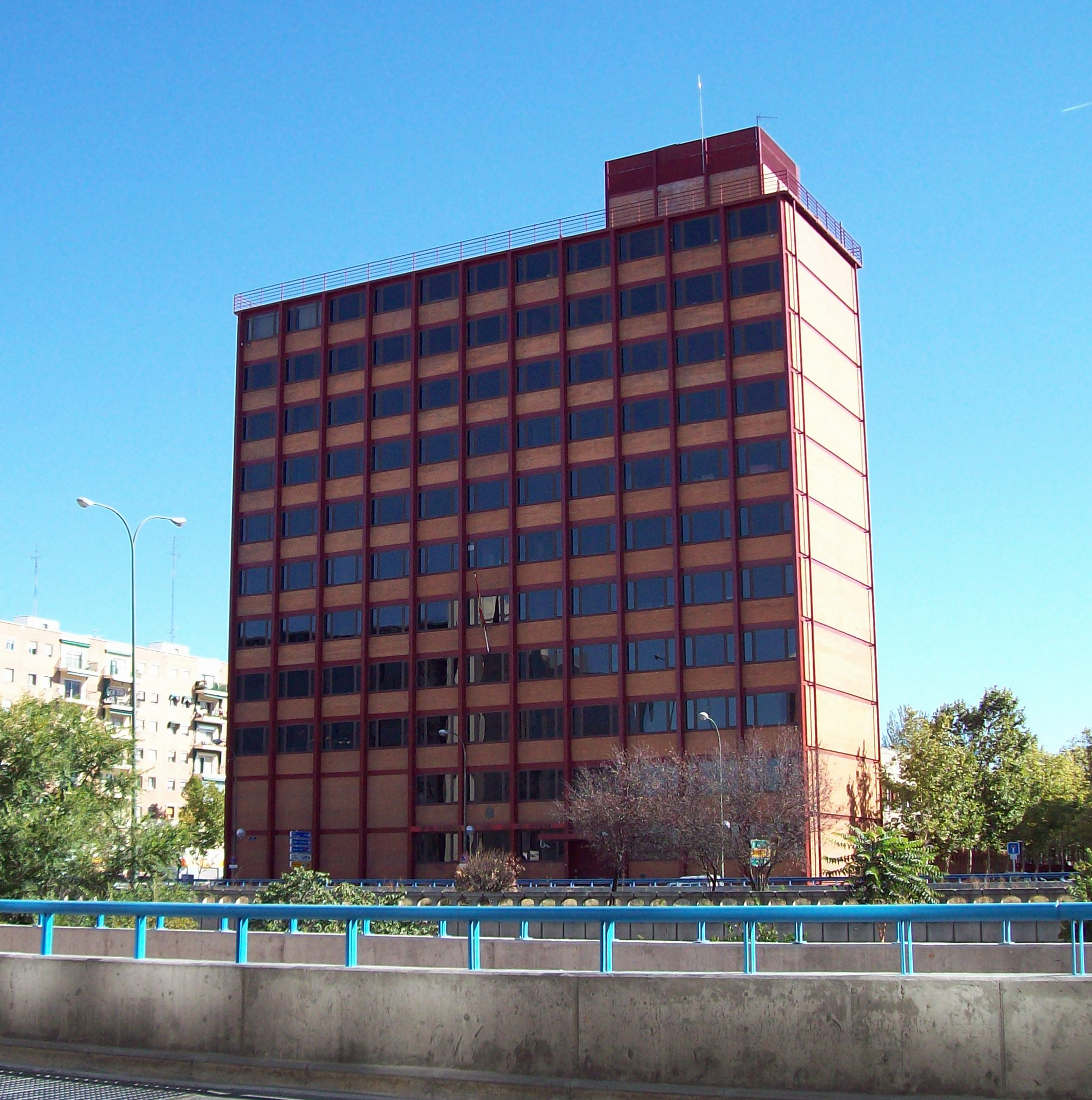 Façade of Edificio Arriba (building) at 272 Paseo de la Castellana (avenue) in Madrid (Spain). Former headquarters of Arriba newspaper. Projected by Francisco de Asís Cabrero (1912–2005) and built in 1962.